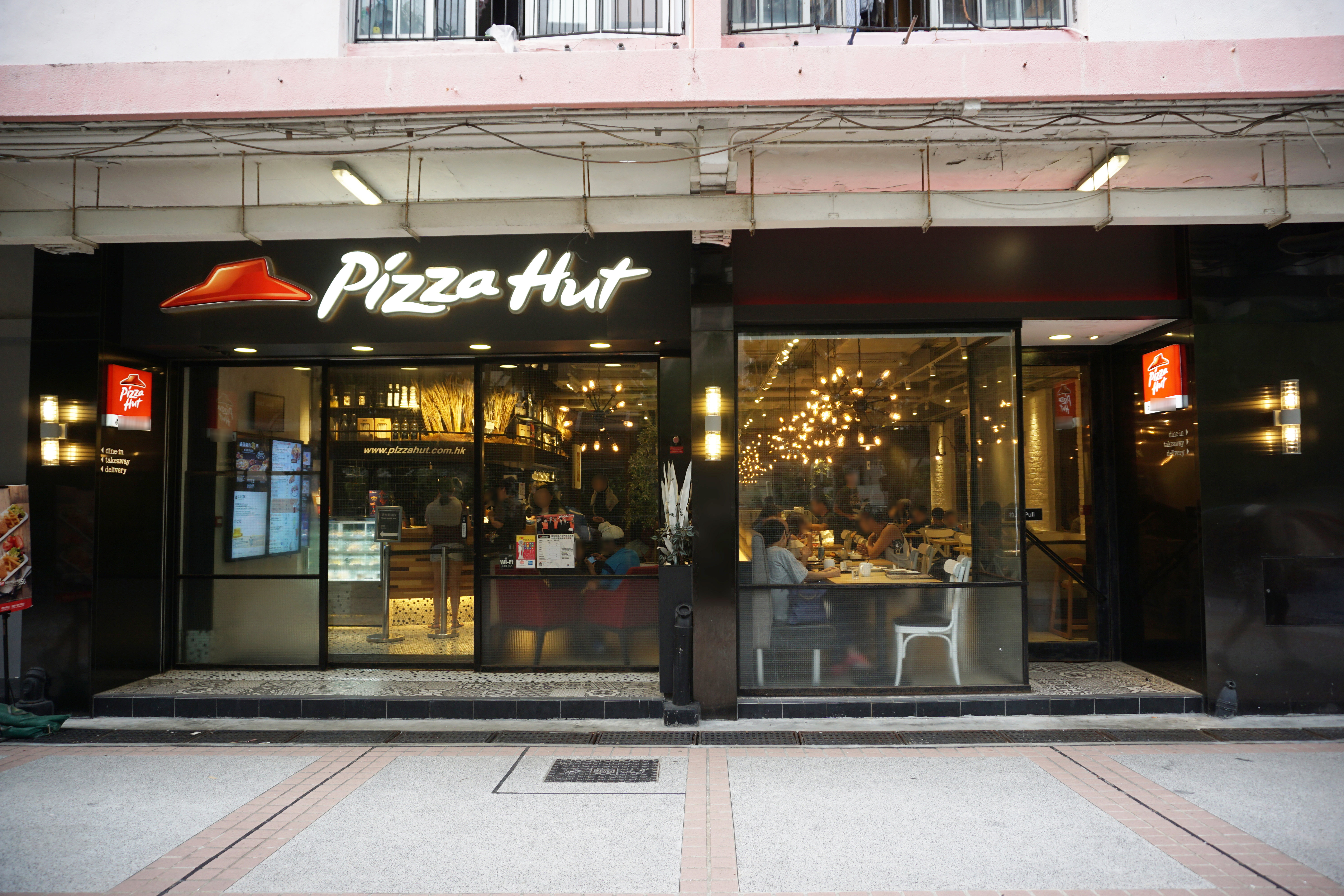 Pizza Hut in Ap Lei Chau, Hong Kong.